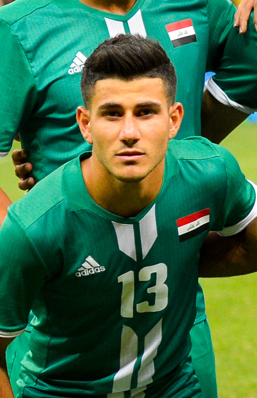 Brazil-Iraq 0:0